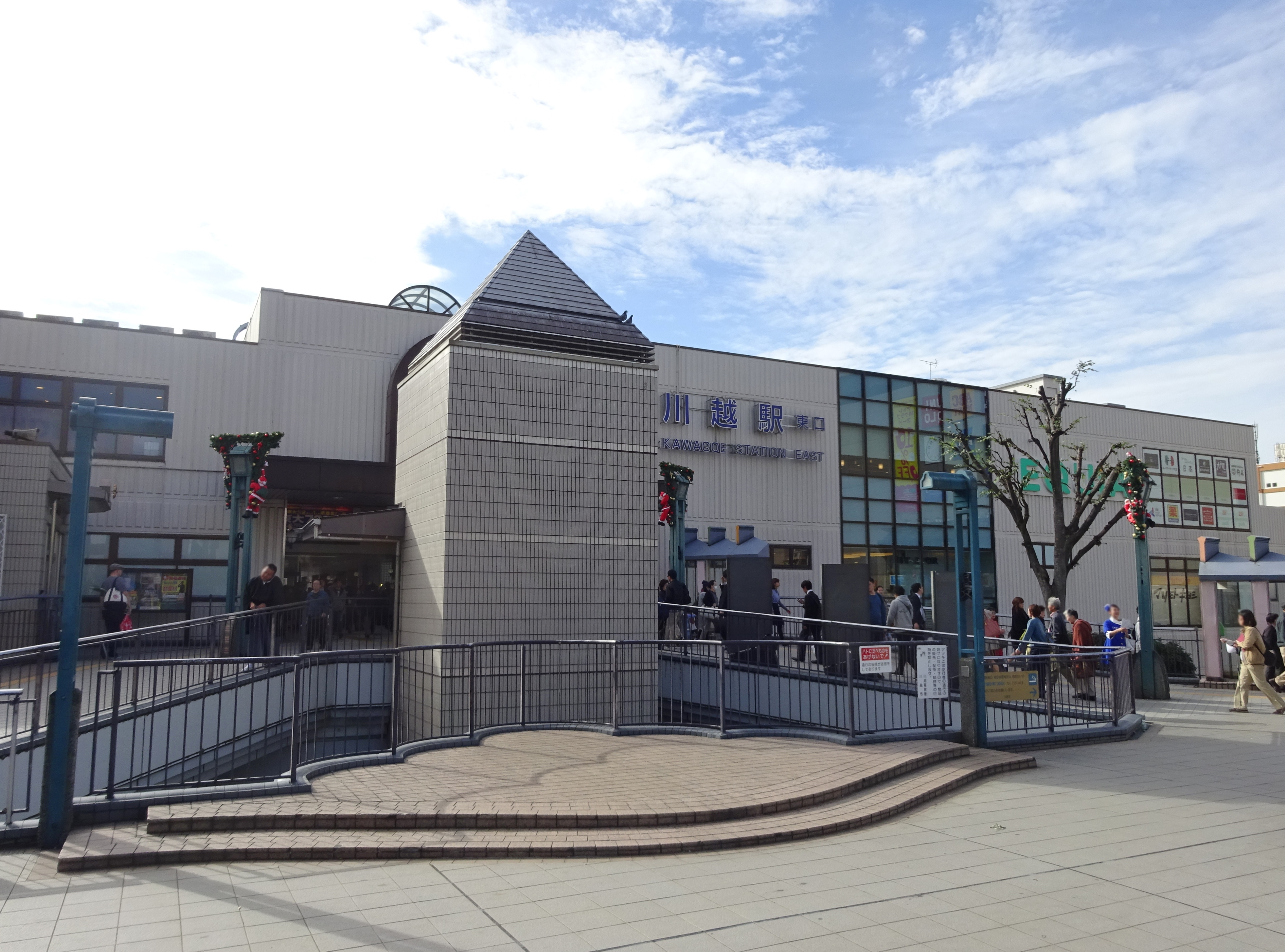 The east entrance to Kawagoe Station in Kawagoe, Saitama Prefecture, Japan